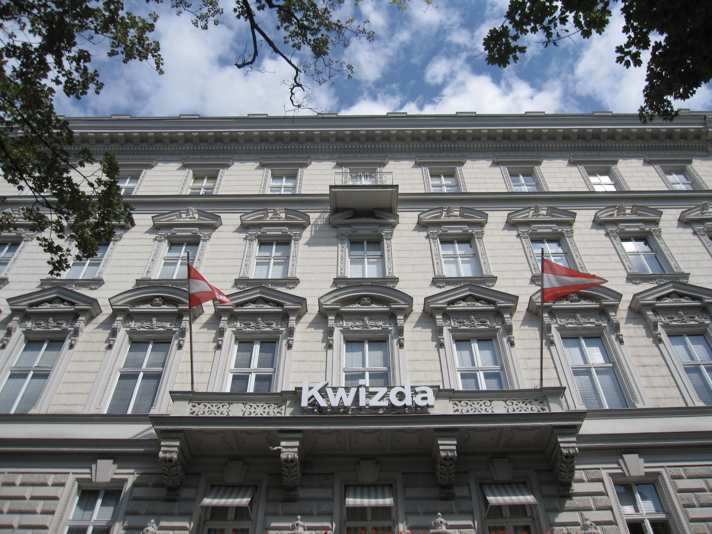 Kwizda headquarters in Vienna